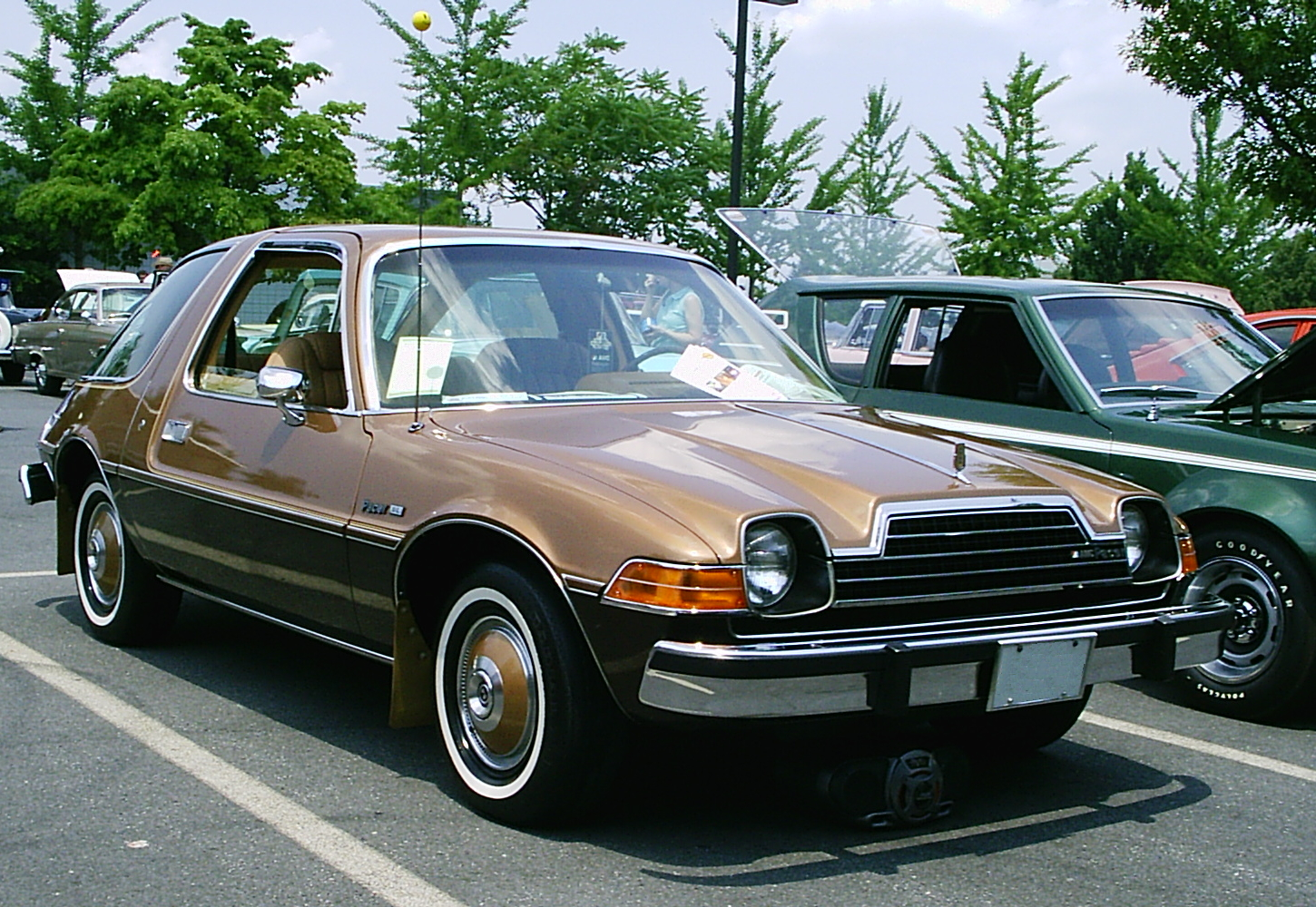 1979 AMC Pacer coupe, an innovative compact-sized car built by American Motors Corporation. This is an unmolested (factory original) D/L model finished in two-tone brown. Picture taken at the AMCRC (AMC Rambler Club) car show that was held in Gaithersburg, Maryland, USA.